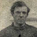 TC Locke, Auburn football player, cropped from team picture.